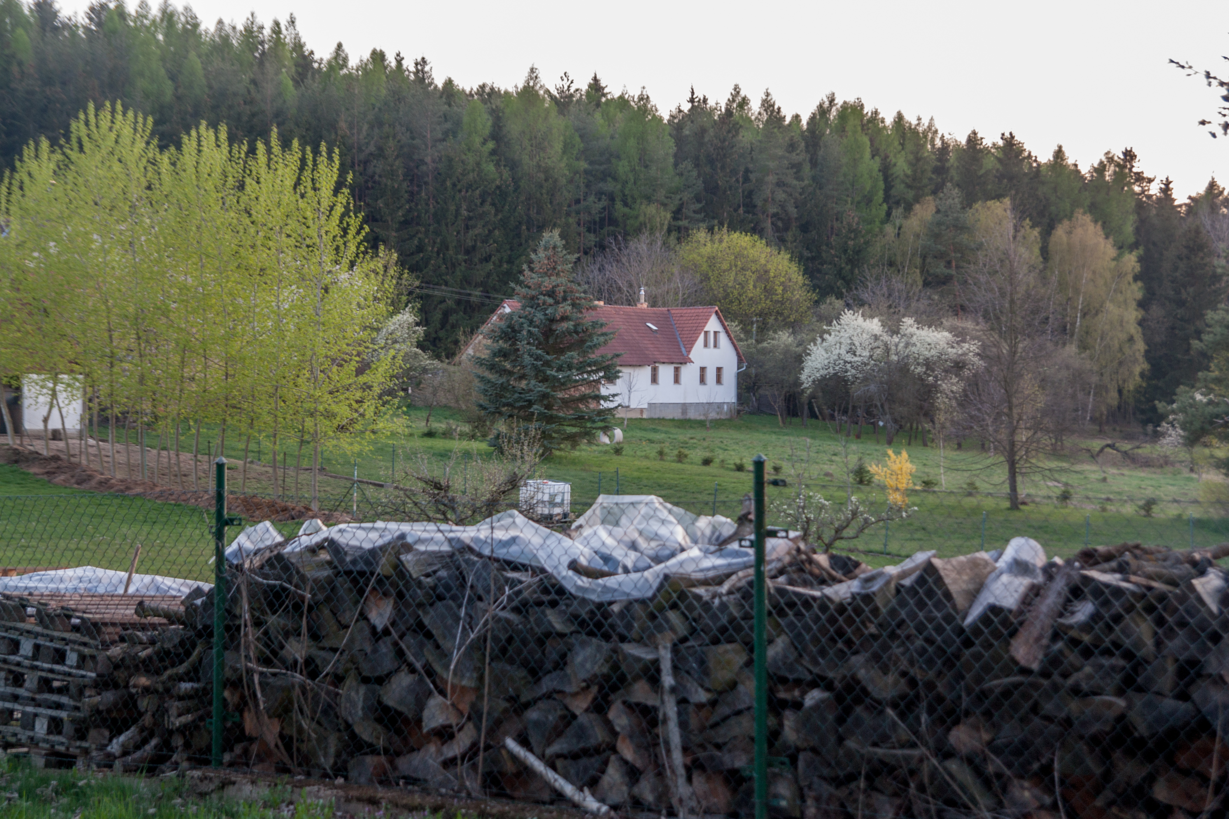 House in municipality Křekovická Lhota, Tábor District, South Bohemian Region, Czechia